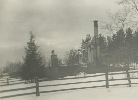 1918 Finnish Civil War. Ruins of Valkjärvi School destroyed by Red Guard artillery fire.